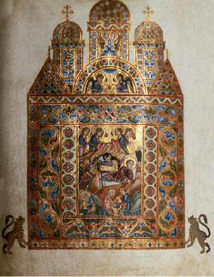 Nativity scene on a mid-11th-century Kievan miniature from Queen Gertrude's Prayer Book